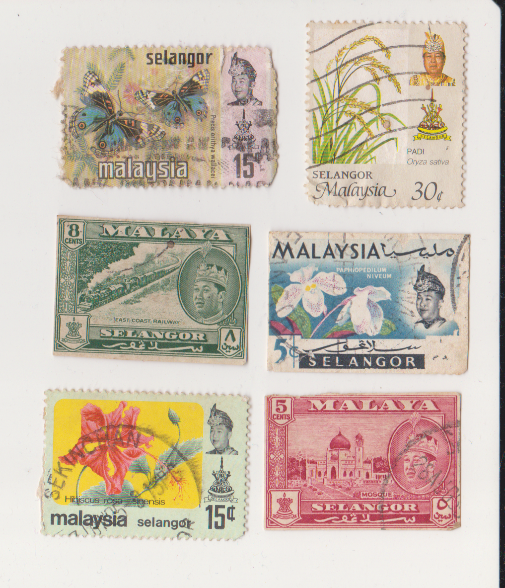 Stamps depicting the picture of Sultan of Selangor. Stamps are from private collection